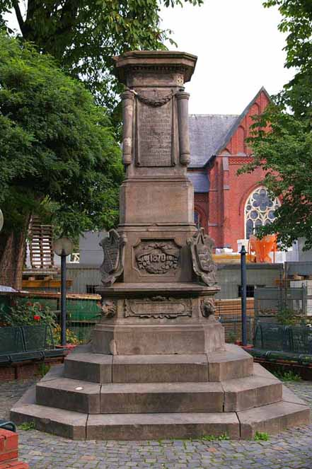 Monument at the marketplace in Witten-Annen